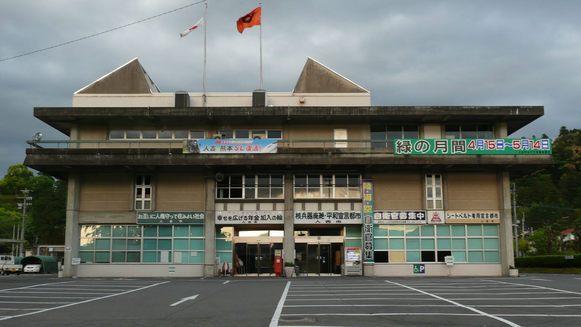 Hitoyoshi City Office (kumamoto, Japan)